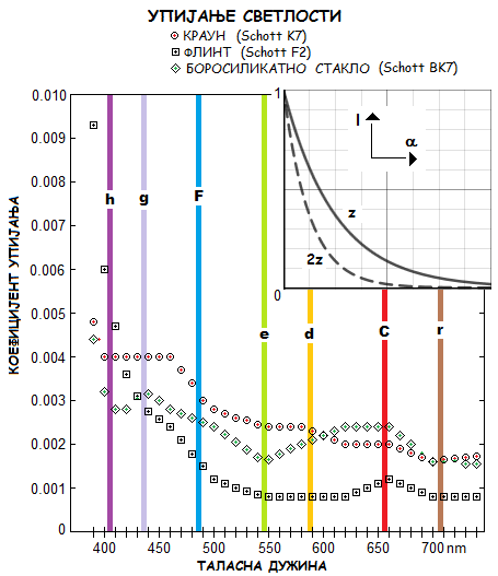 УПИЈАЊЕ СВЕТЛОСТИ